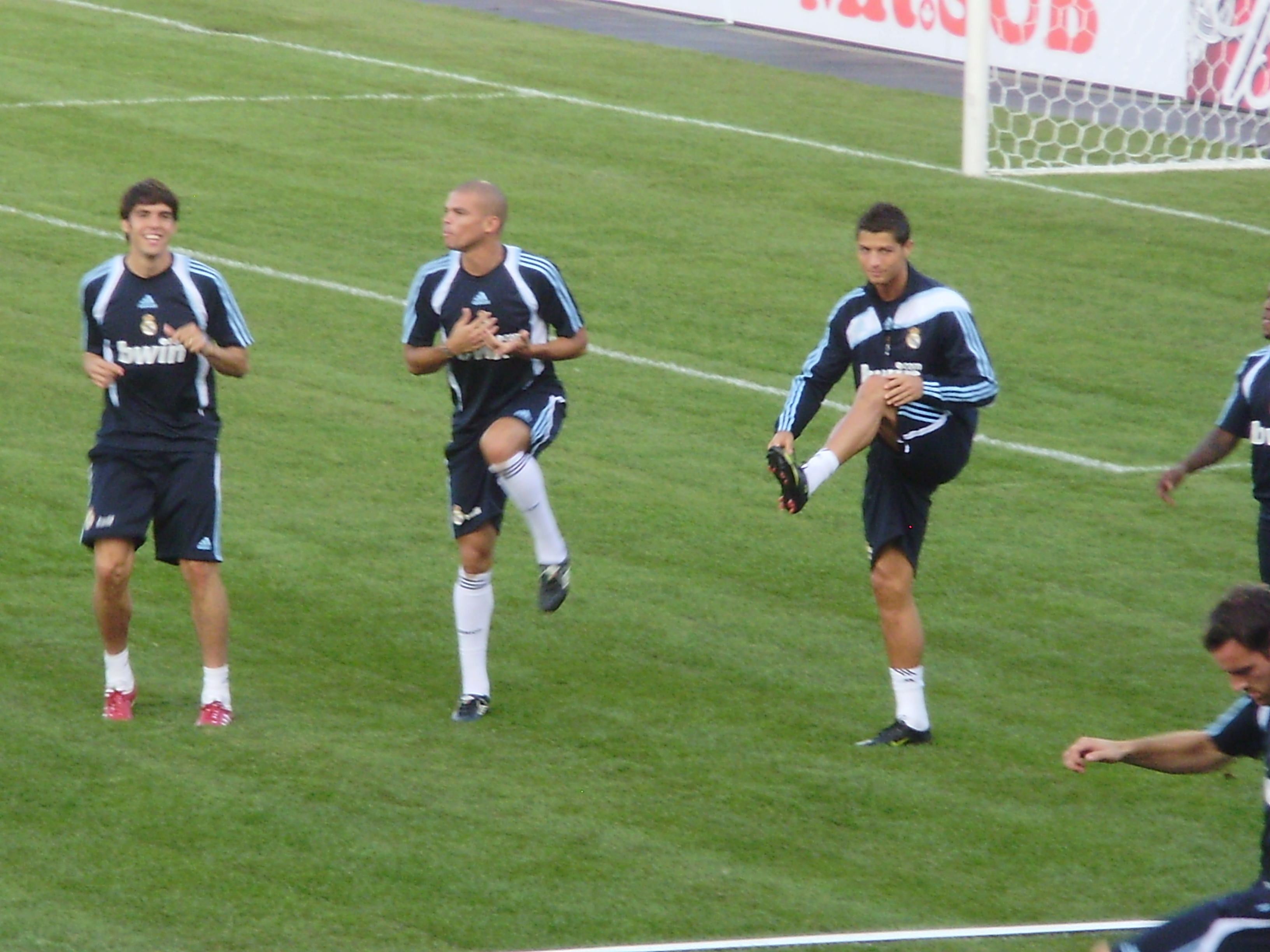 Real Madrid in Toronto Canada, Kaka, Ronaldo amd Pepe